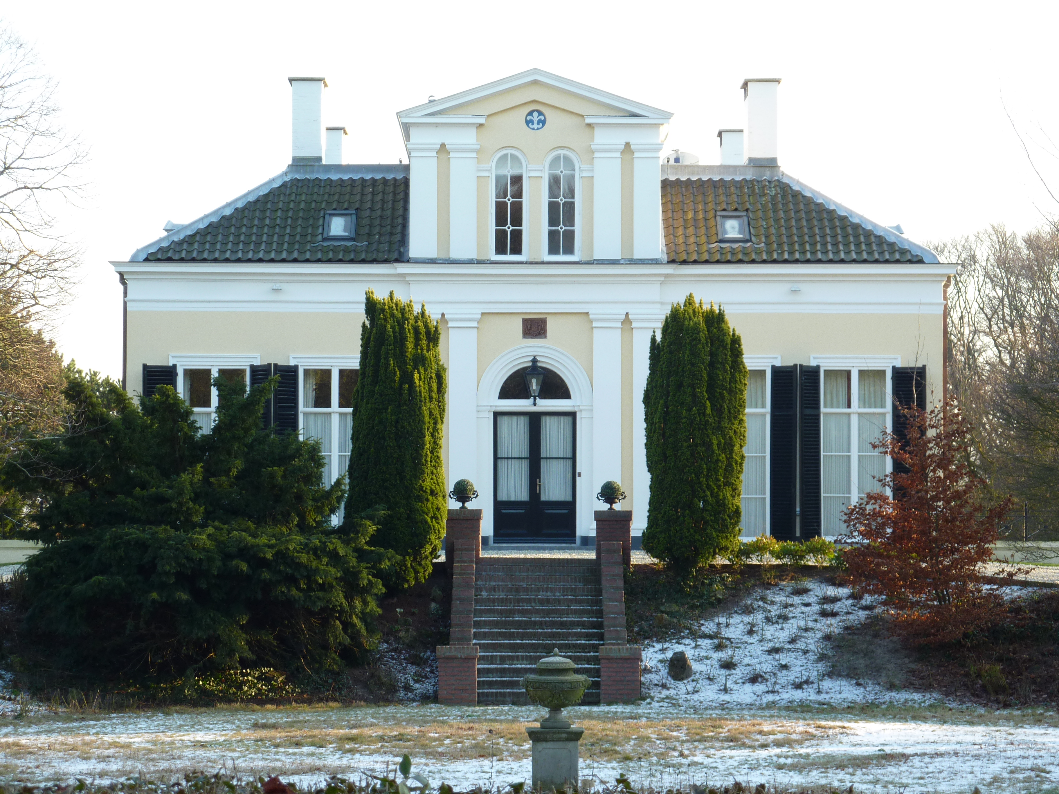 Noordwijk, Klein Leeuwenhorst